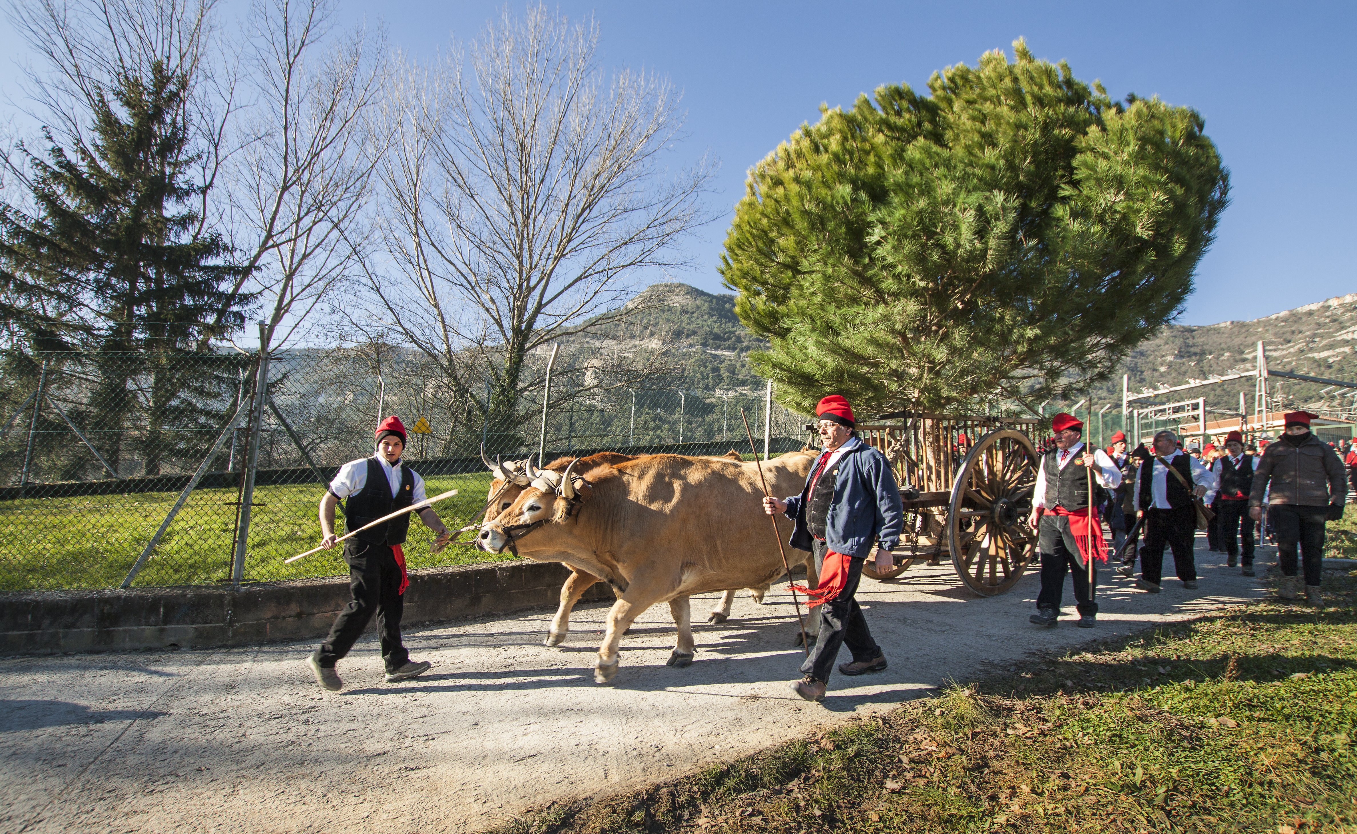 This is a photography of a Folklore festival in Spain (Wikidata id Q20108095).